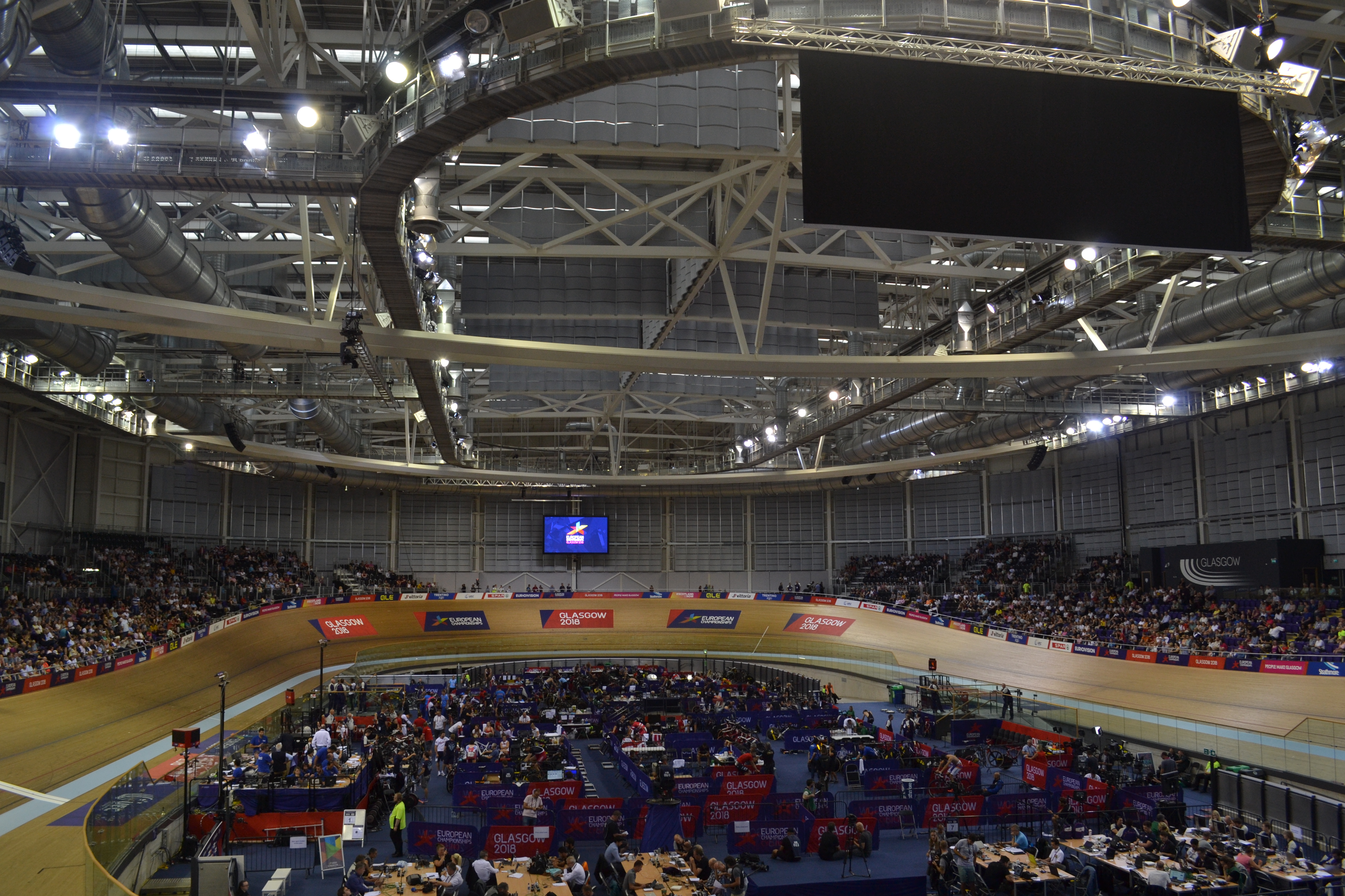 2018 UEC European Track Championships